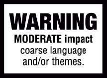 First level of warning used by the Australian Recording Industry Association.